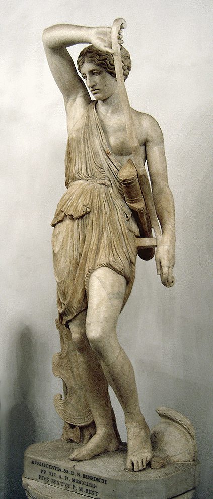 Head of a Wounded Amazon of the Capitol-Mattei type. Marble